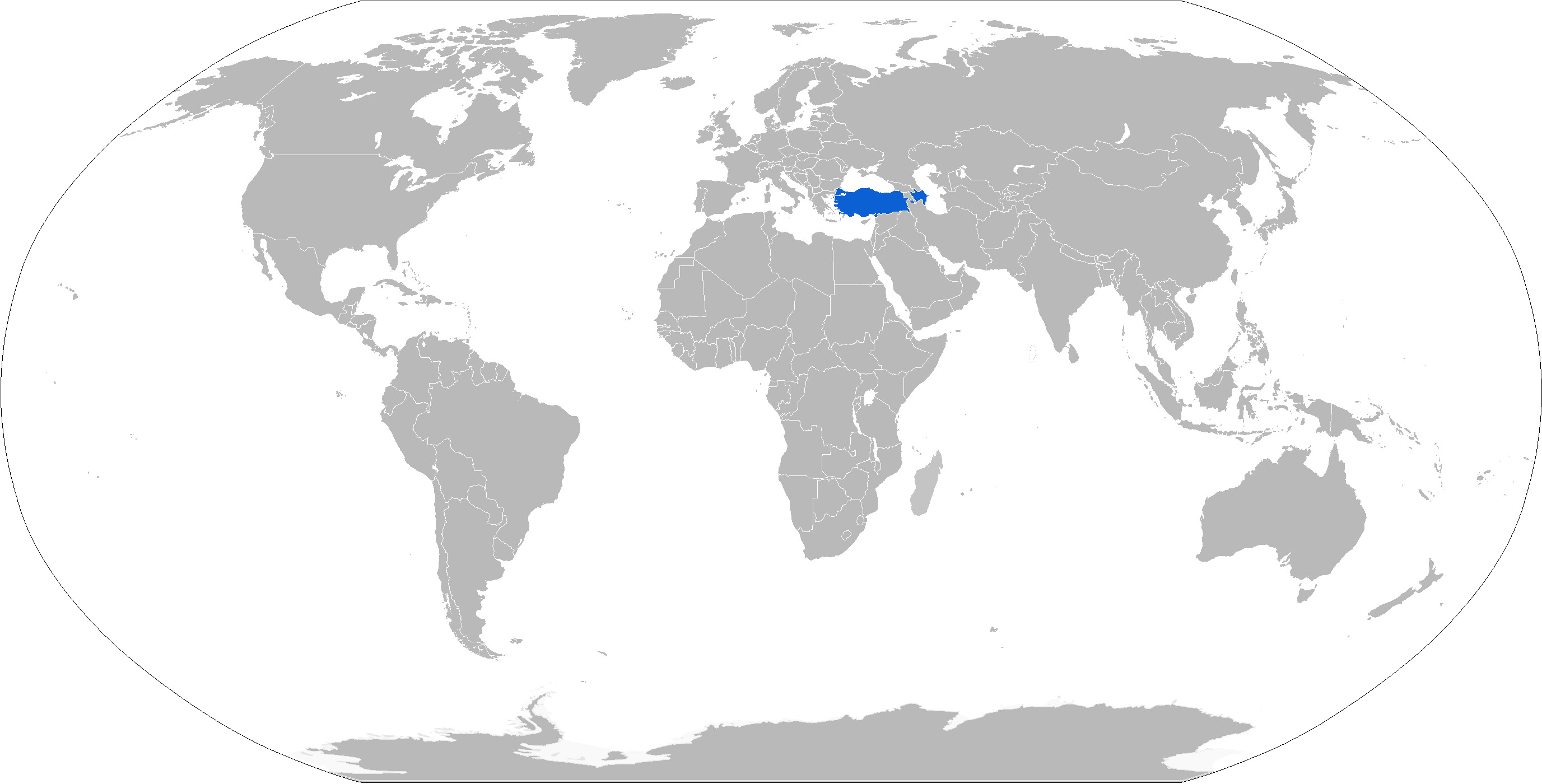 Map with T-155 operators in blue